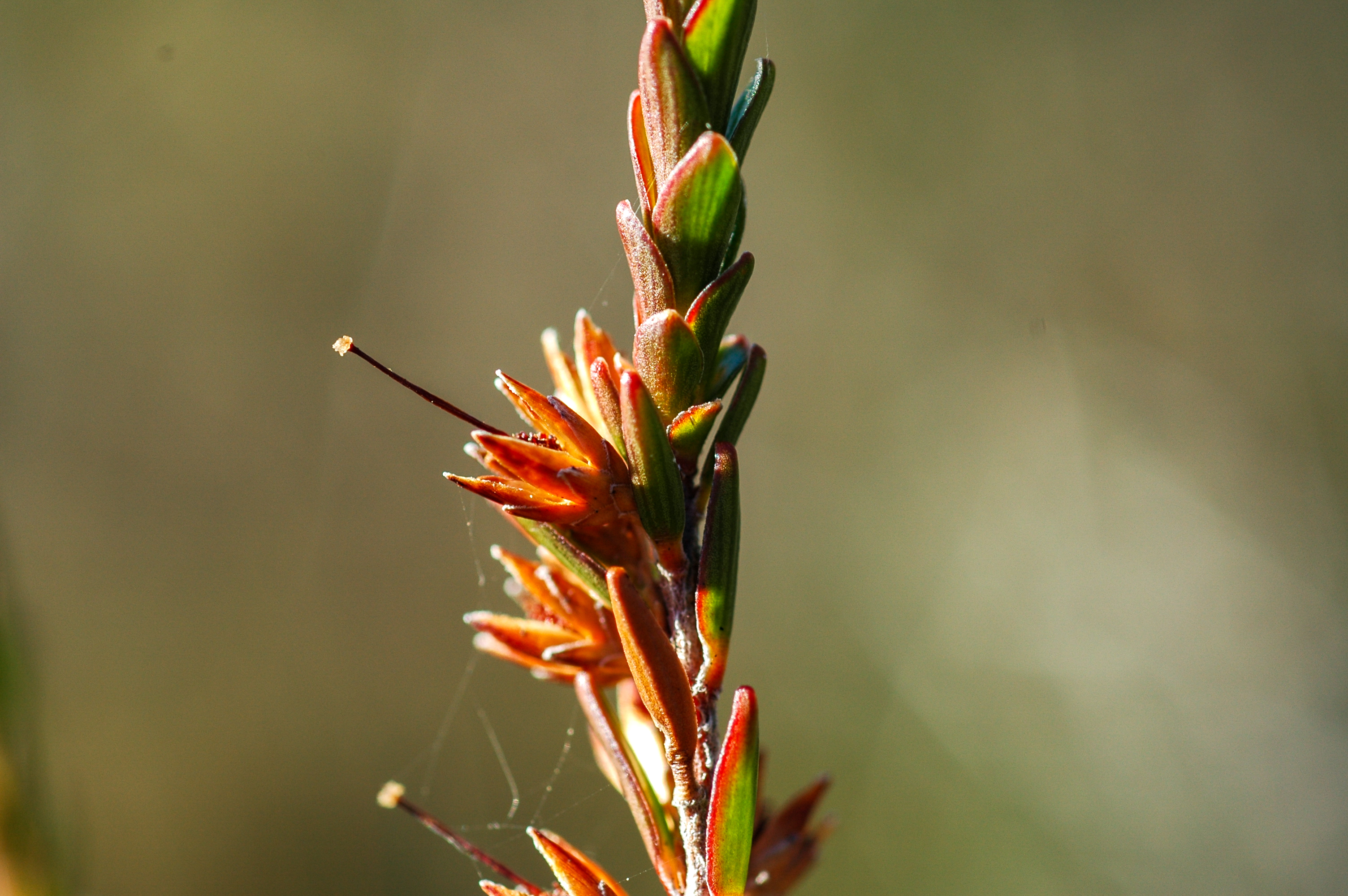 Late stages of flowering in Epacris corymbiflora